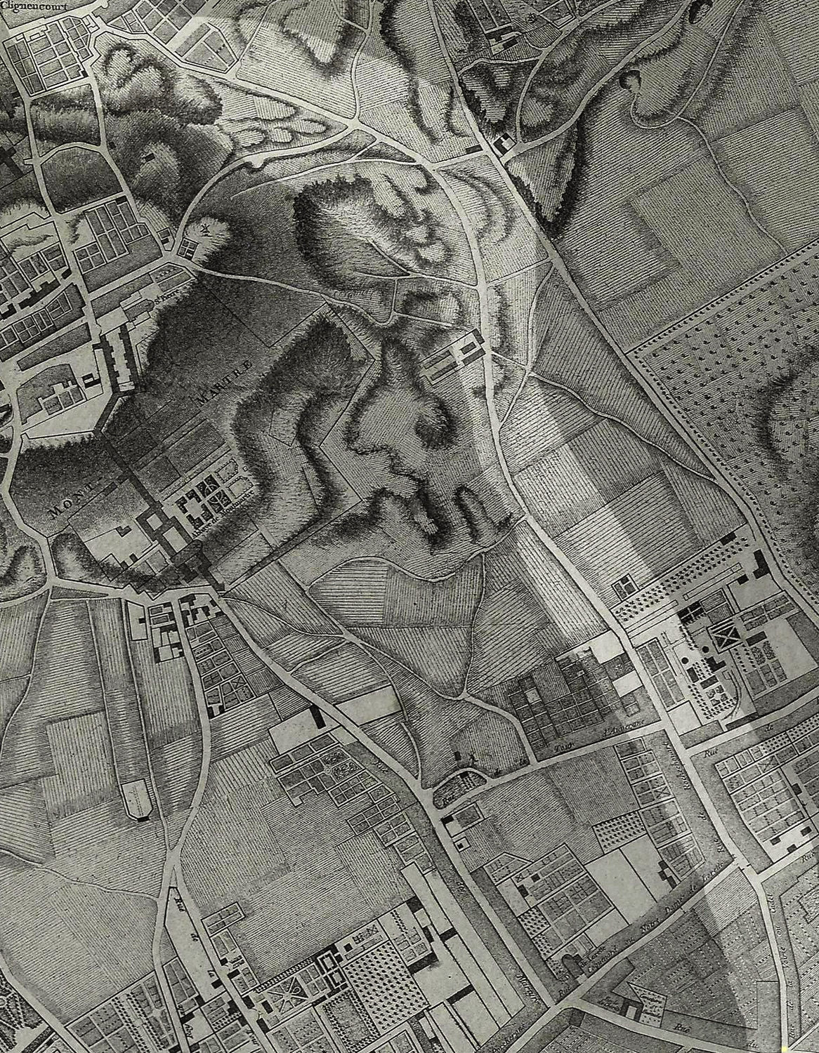 The Rochechouart street on the plan by Jaillot of Paris (France) in 1775.